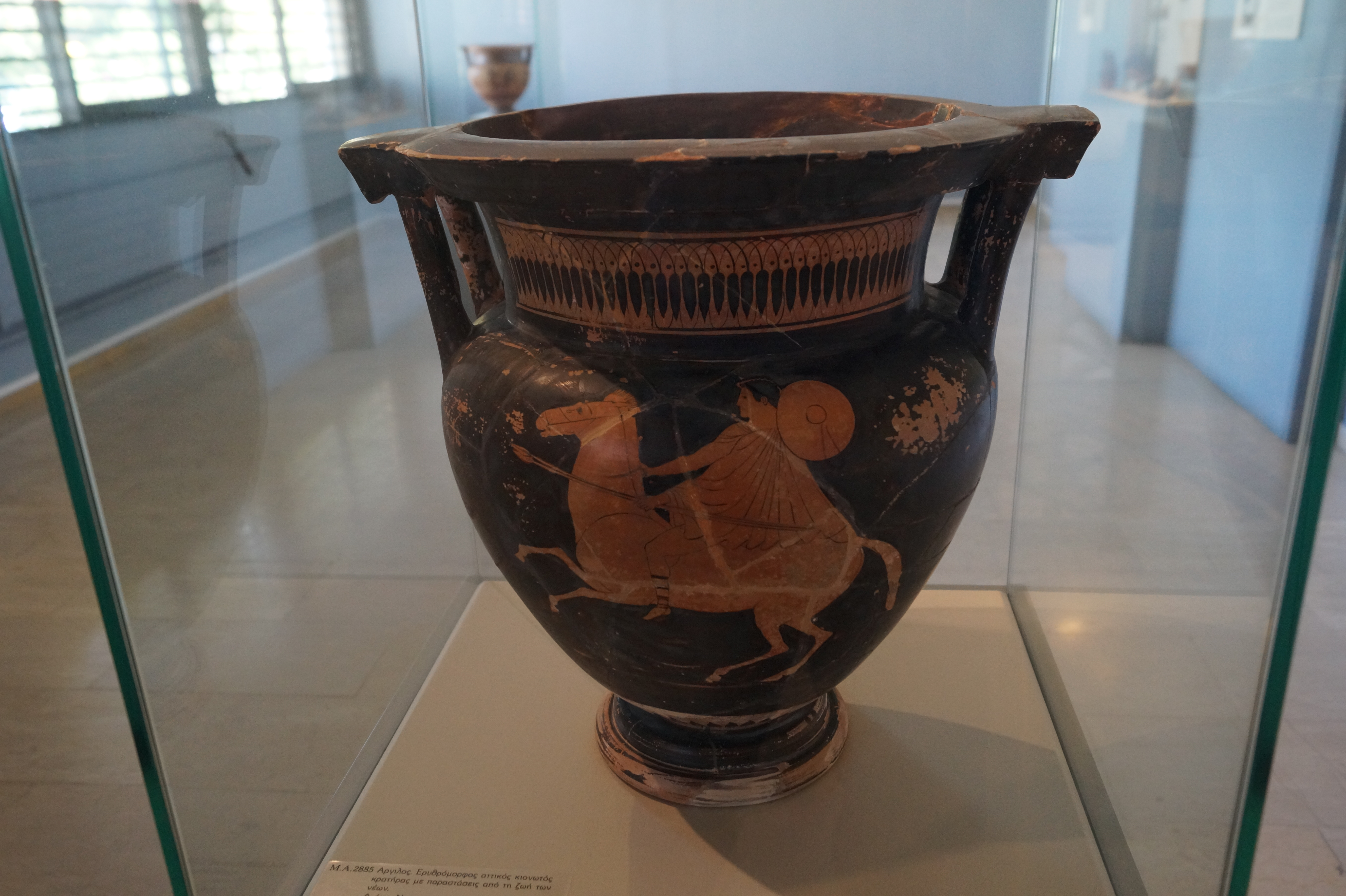 Amphipoli, Makedonia, Greece: Archaeological Museum of Amphipolis: Red-figured column crater from Argilos. Second quarter of 5th century BC. Rider wearing a chlamy and a petasus.